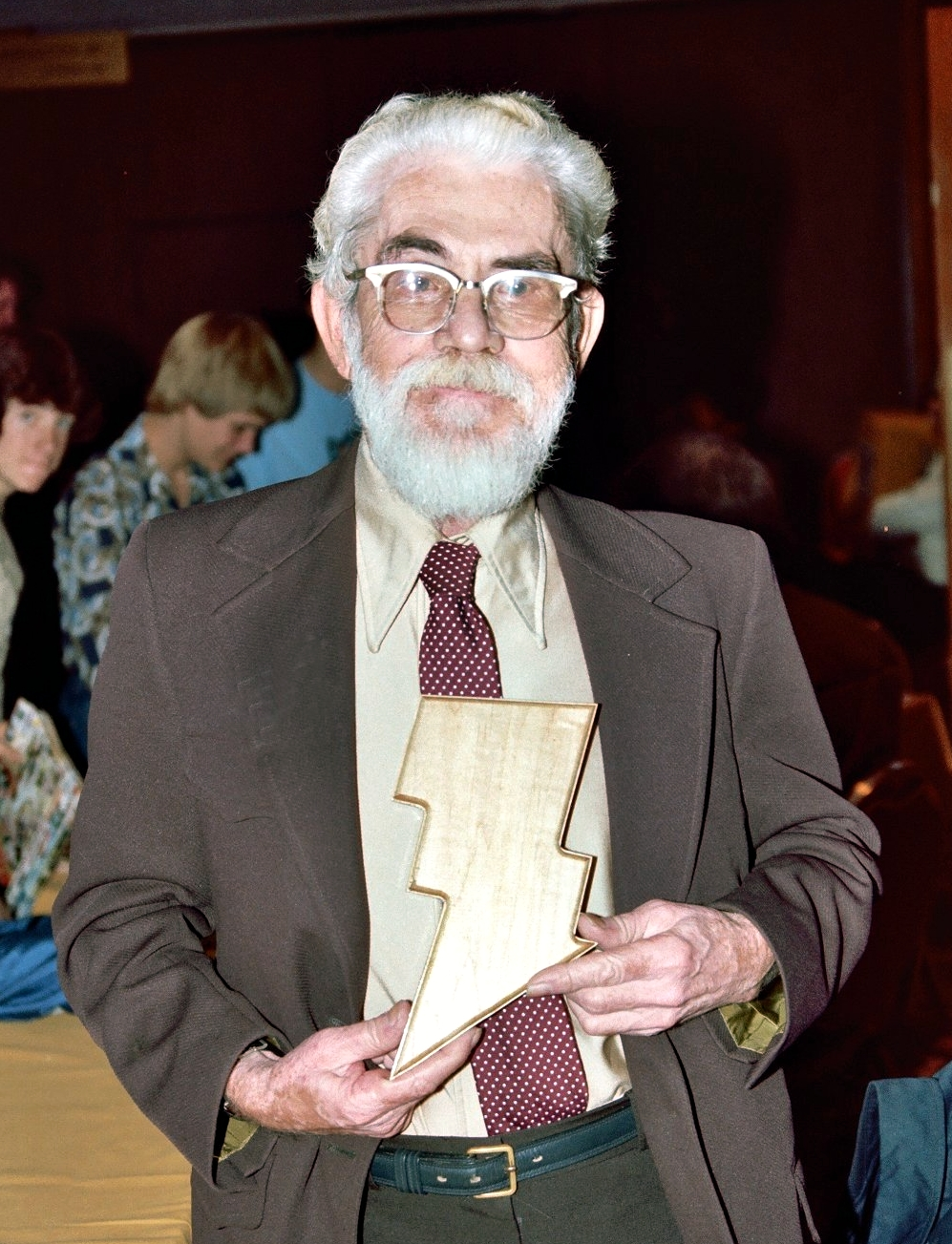 Captain Marvel creator C. C. Beck (1910-1989) at the October, 1982 Minneapolis Comic-Con. NOTE: Permission granted to copy, publish, broadcast or post any of my photos, but please credit "photo by Alan Light" if you can. Thanks.